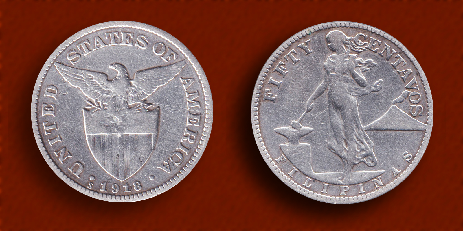 Philippine Islands (US Administration) 50 Centavos (0.5 PHP) 1918(S) Silver coin. 10g (Fineness: .750), 22.5mm. Mint Mark: "S" (San Francisco) Obverse: Eagle above shield; Text: UNITED STATES OF AMERICA 1918 S Reverse: Lady standing wearing flowing dress holding a hammer in her right hand resting on an anvil with Mt. Mayon, an active volcano in the province of Albay on the island of Luzon, to the right; Text: FIFTY CENTAVOS FILIPINAS Source: "The Cooper Collections" (uploader's private collection); Digital photographs and composite illustration by uploader, Centpacrr